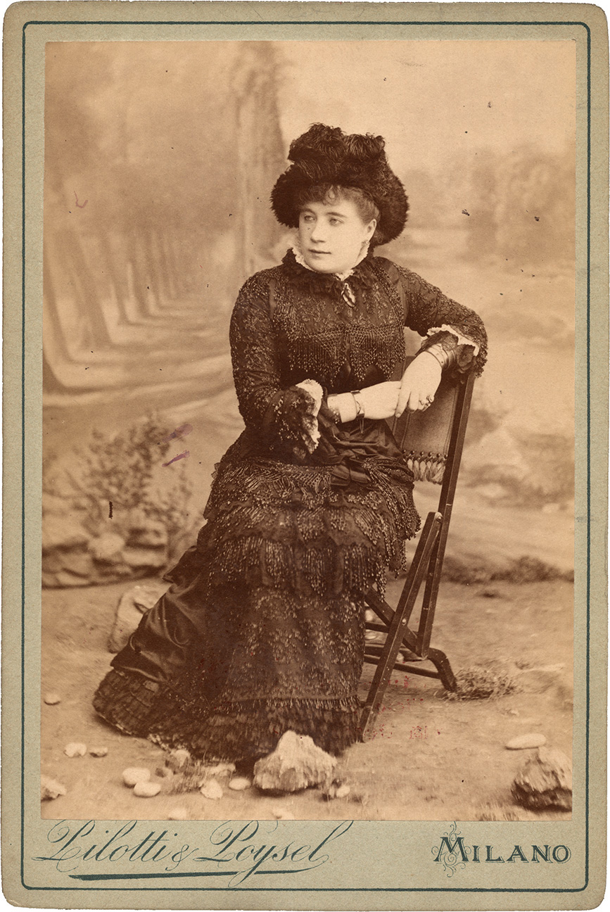 Portrait of Virginia Ferni Germano, teacher (1849-1934). Photo by Pilotti & Poysel, before 1934.